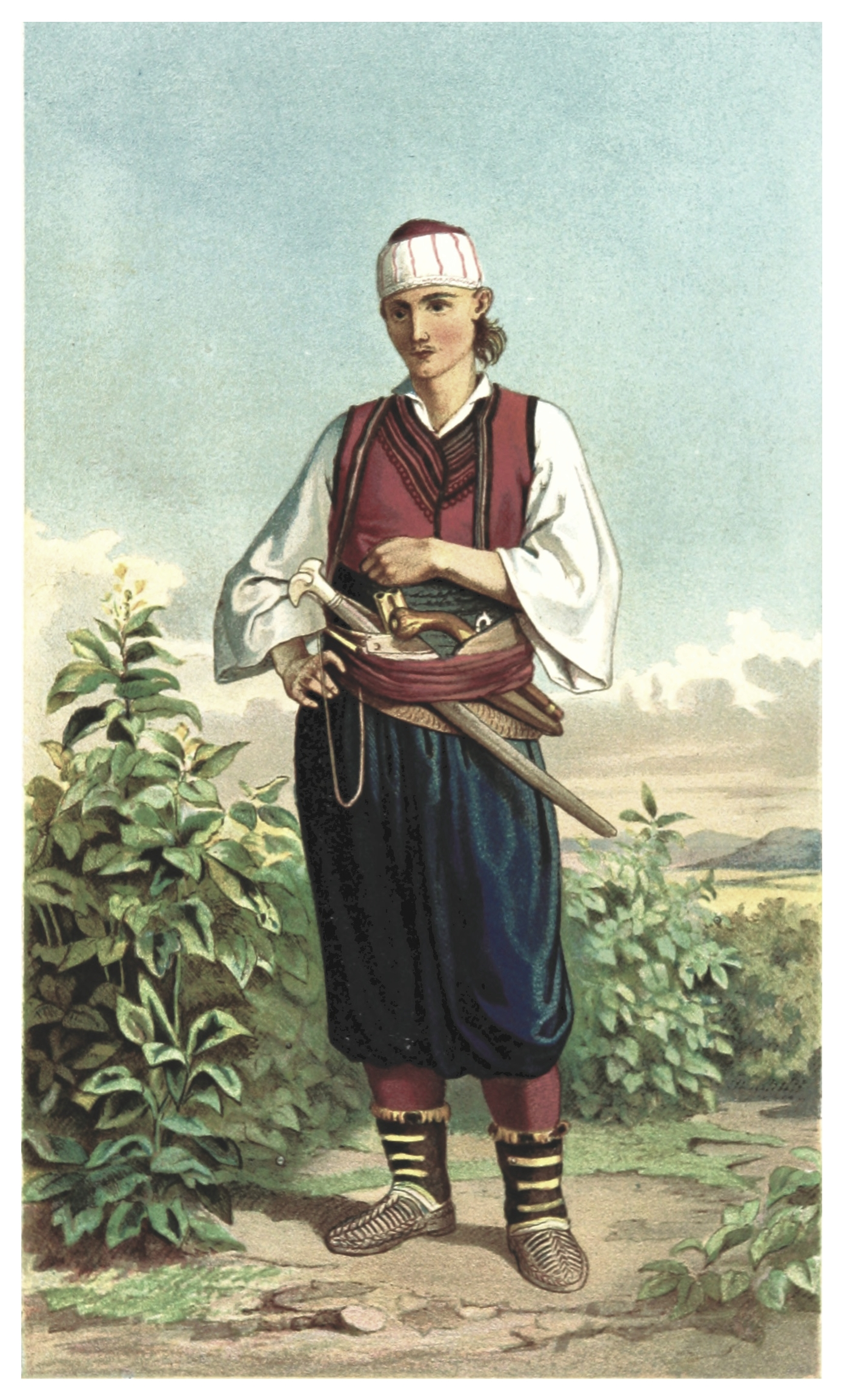 Image extracted from page 29 of Die Serben an der Adria. Ihre Typen und Trachten. (1870) by Louis Salvator, Erzherzog von Österreich. Original held and digitised by the British Library. Copied from Flickr. Note: The colours, contrast and appearance of these illustrations are unlikely to be true to life. They are derived from scanned images that have been enhanced for machine interpretation and have been altered from their originals.